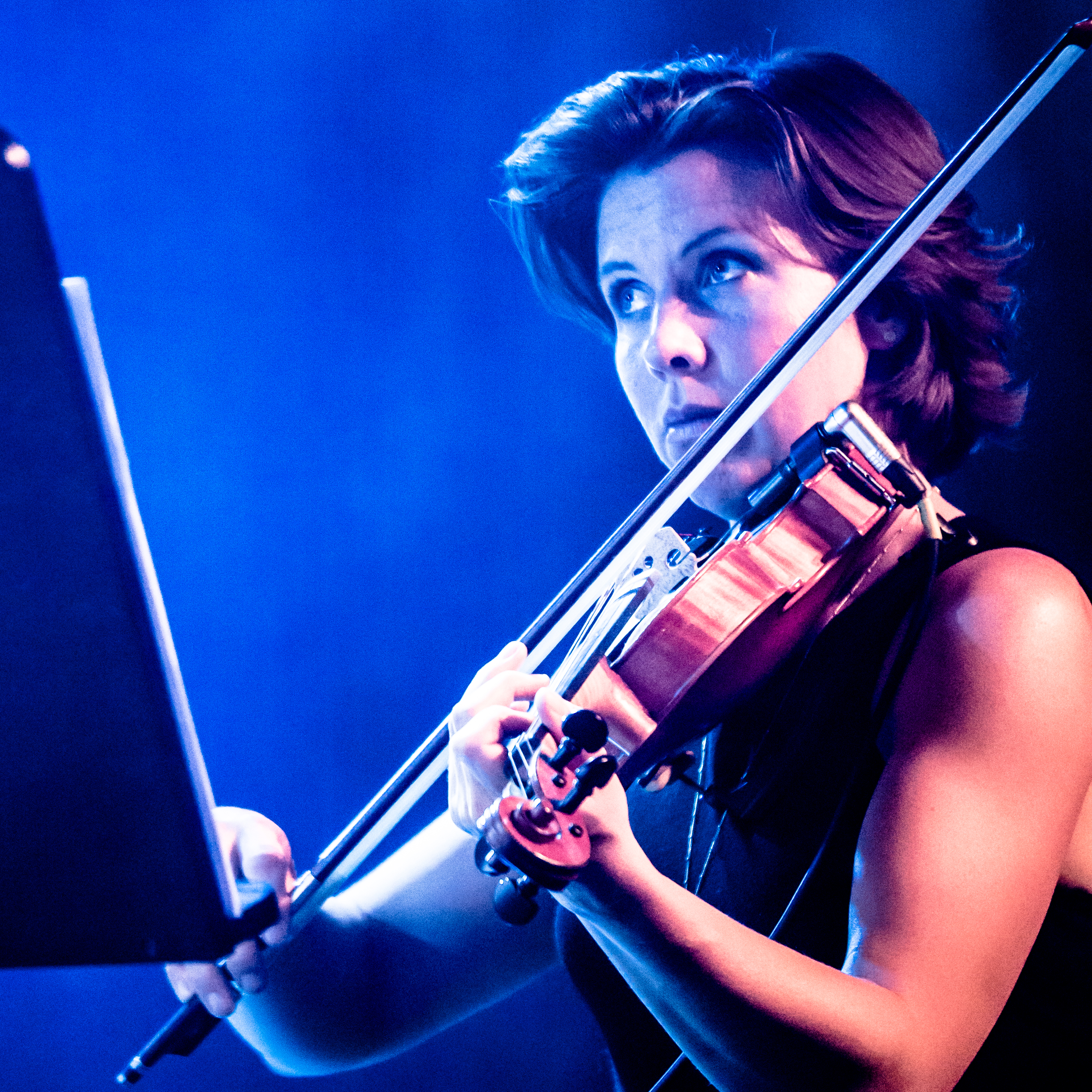 Canadian violinist Sarah Neufeld at the Moers Festival 2015